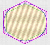 Calculating the value of pi by means of the polygon method.